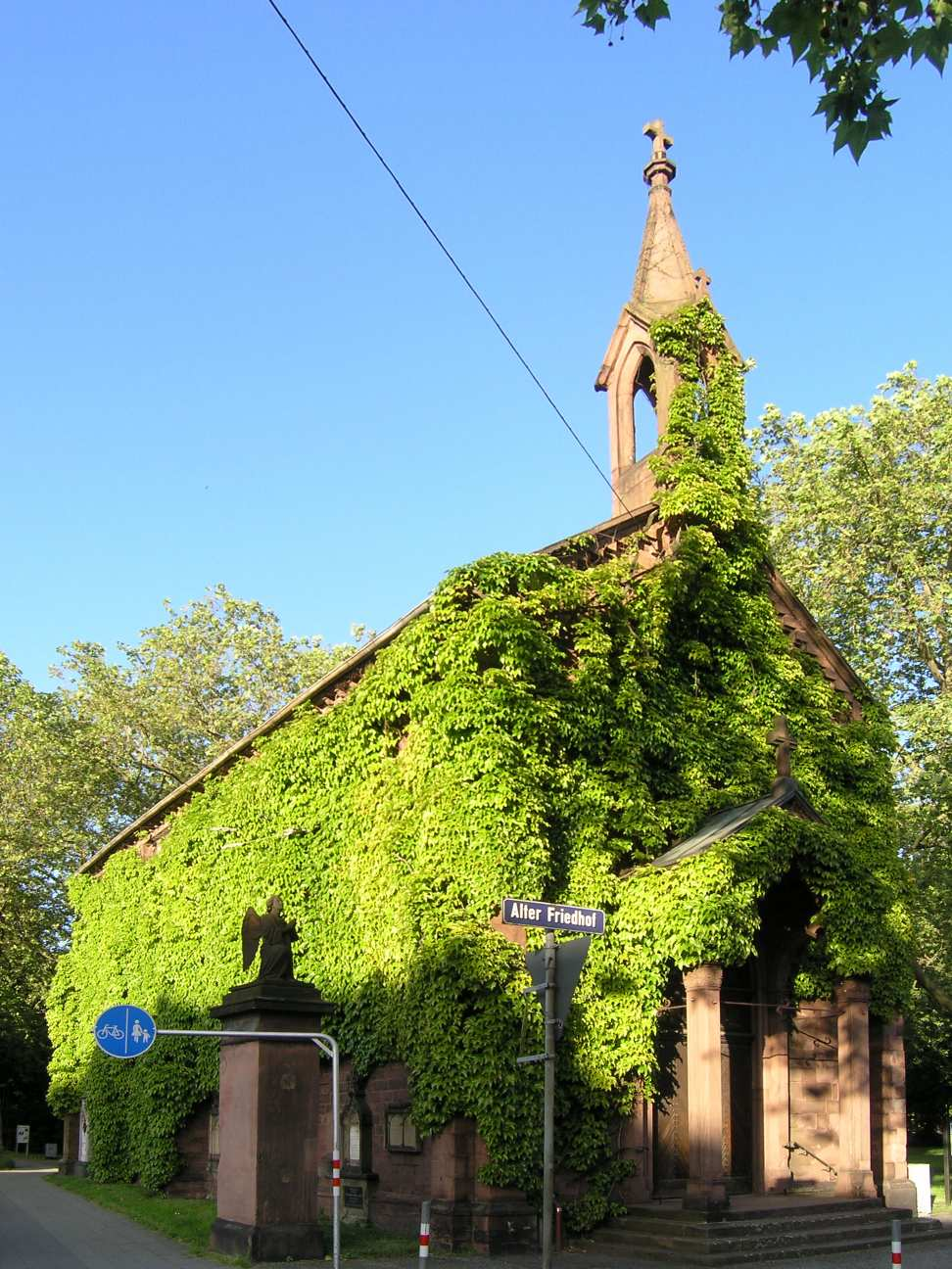 Old cemetery chapel at Karlsruhe, now the Lutheran Simeon Church of the one of the congregations of the Evangelical Lutheran Church in Baden.